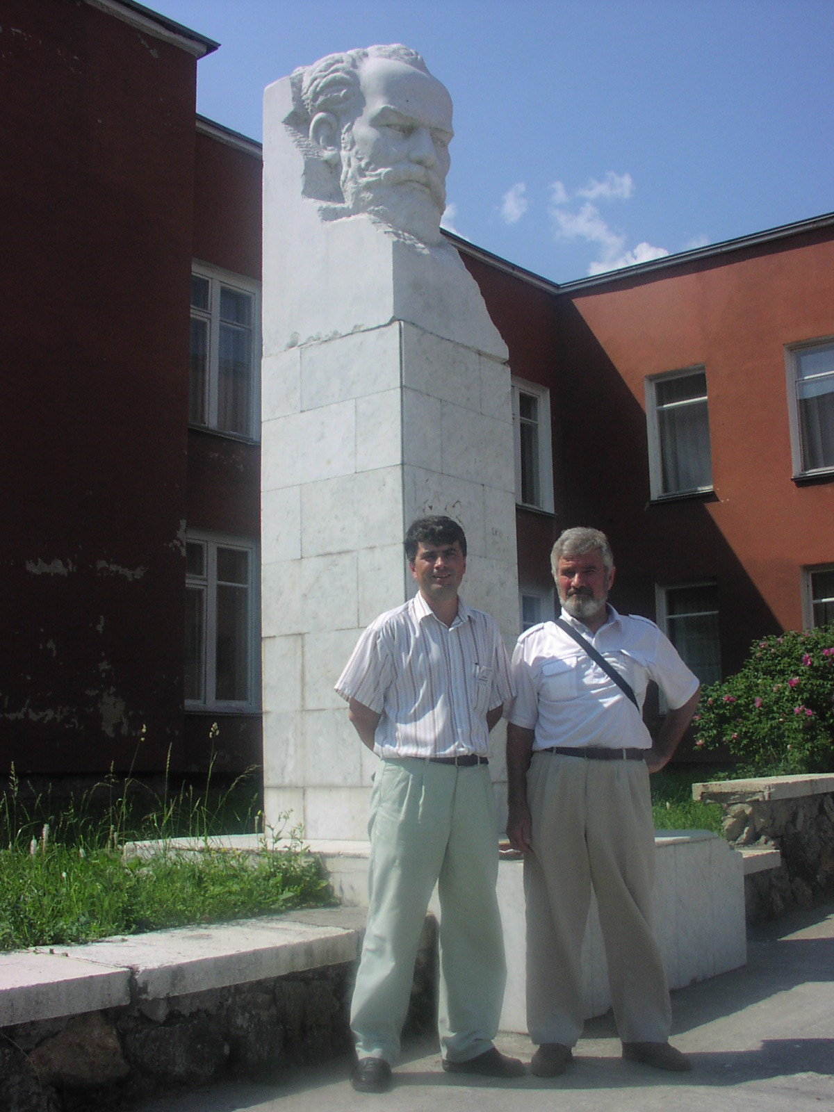 монумент Чайковскому в Снежинске